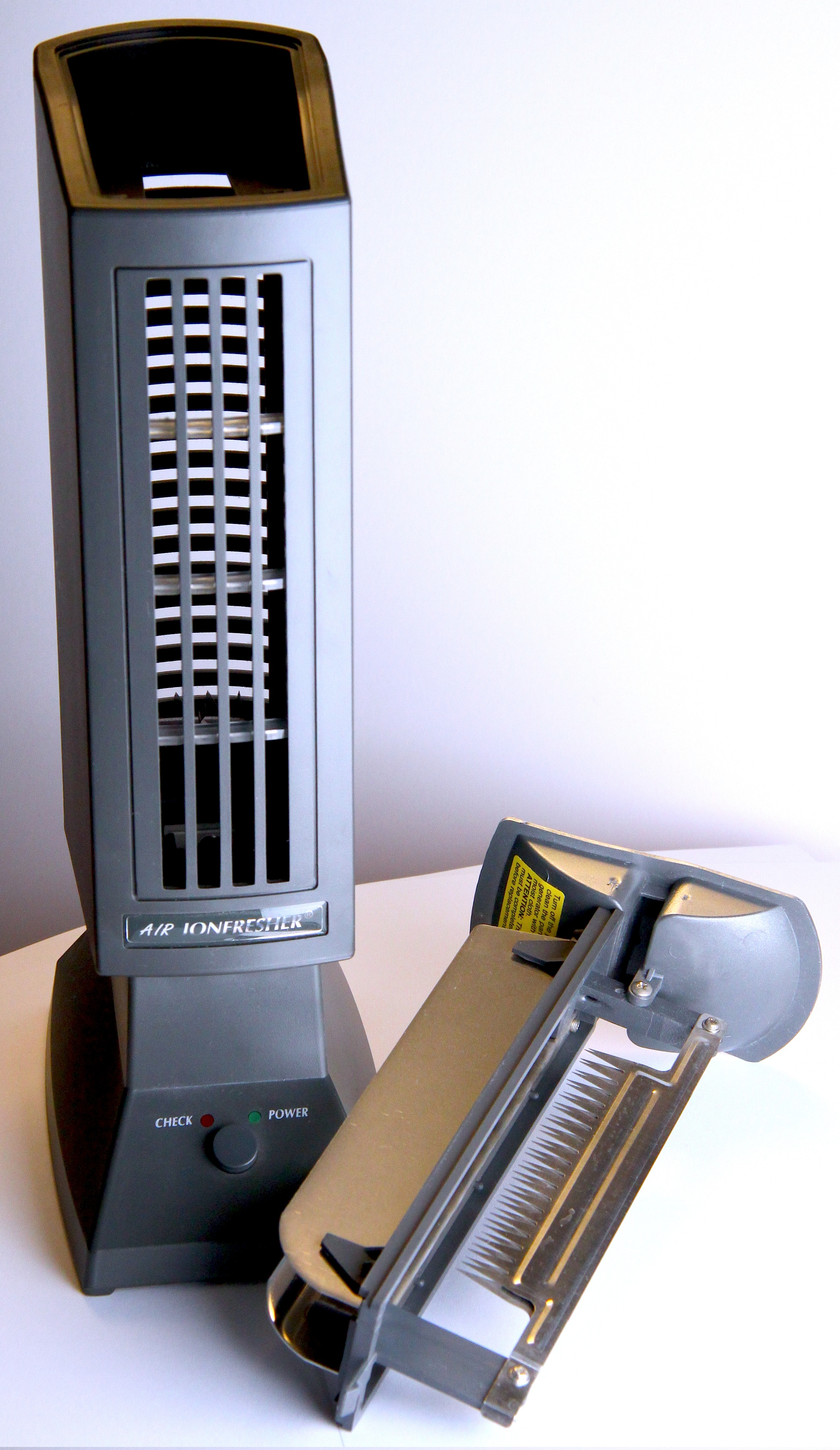 Air ionizer/purifier with its corona discharge electrode and dust collection plates removed